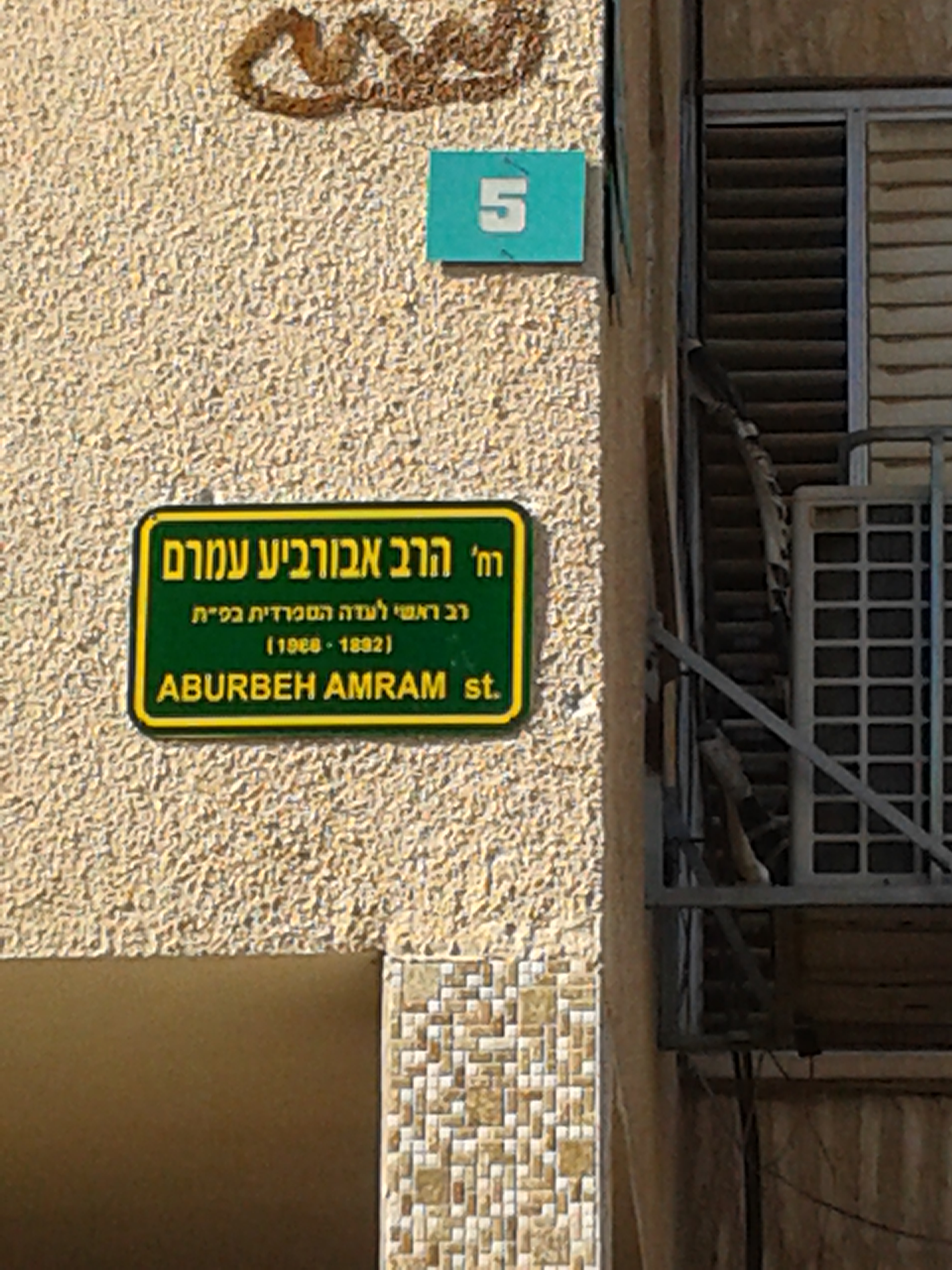 Rabbi Amram Aburbeh street in Ein Ganim neighbourhood Petah Tikva, Israel. Rabbi Amram Aburbeh served as the city Chief Sephardi Rabbi between the years 1951 and 1966. He was born on 1892 and died on 1966. This street sign is new since October 2013.